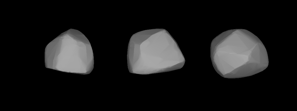 A three-dimensional model of 79 Eurynome that was computed using light curve inversion techniques.